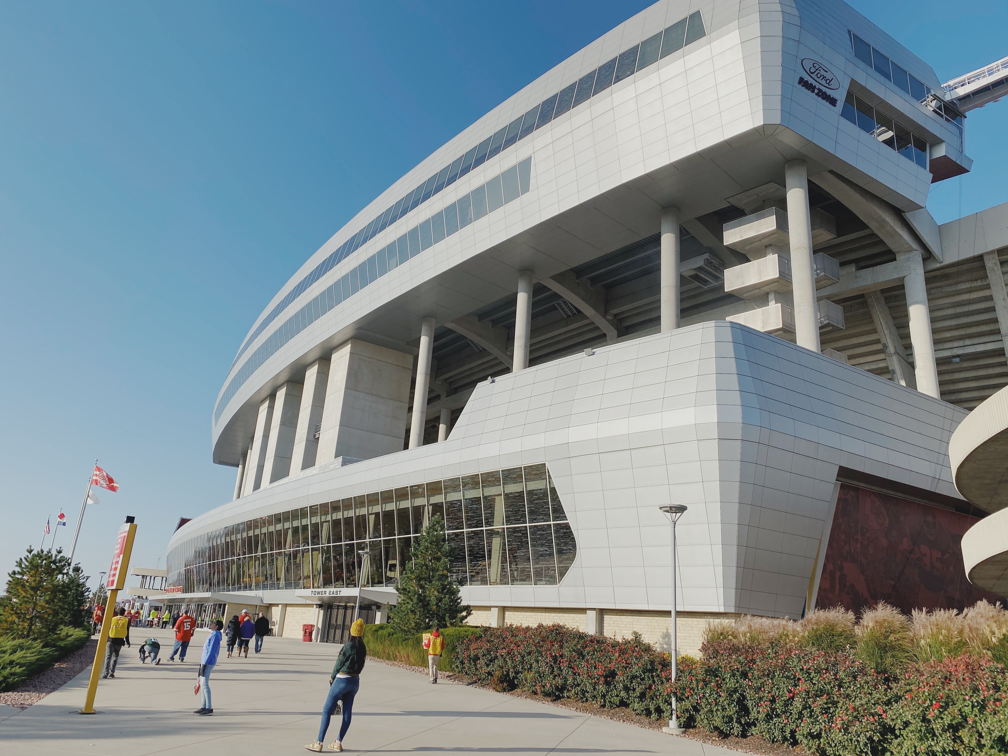 Arrowhead Stadium (October 27, 2019)